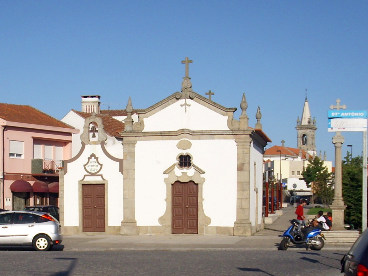 Suburban area of Póvoa de Varzim - Santo António de Cadilhe square in Cadilhe hamlet, Parish of Amorim. Chapel was built in 1561.